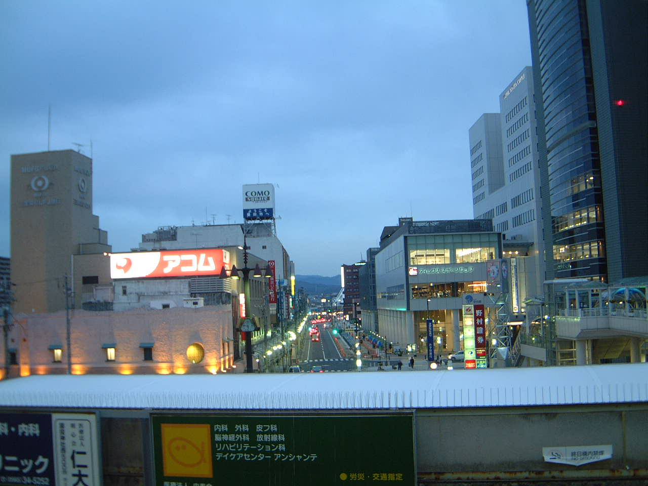 Center of Toyota City, Aichi prefecture, Japan.